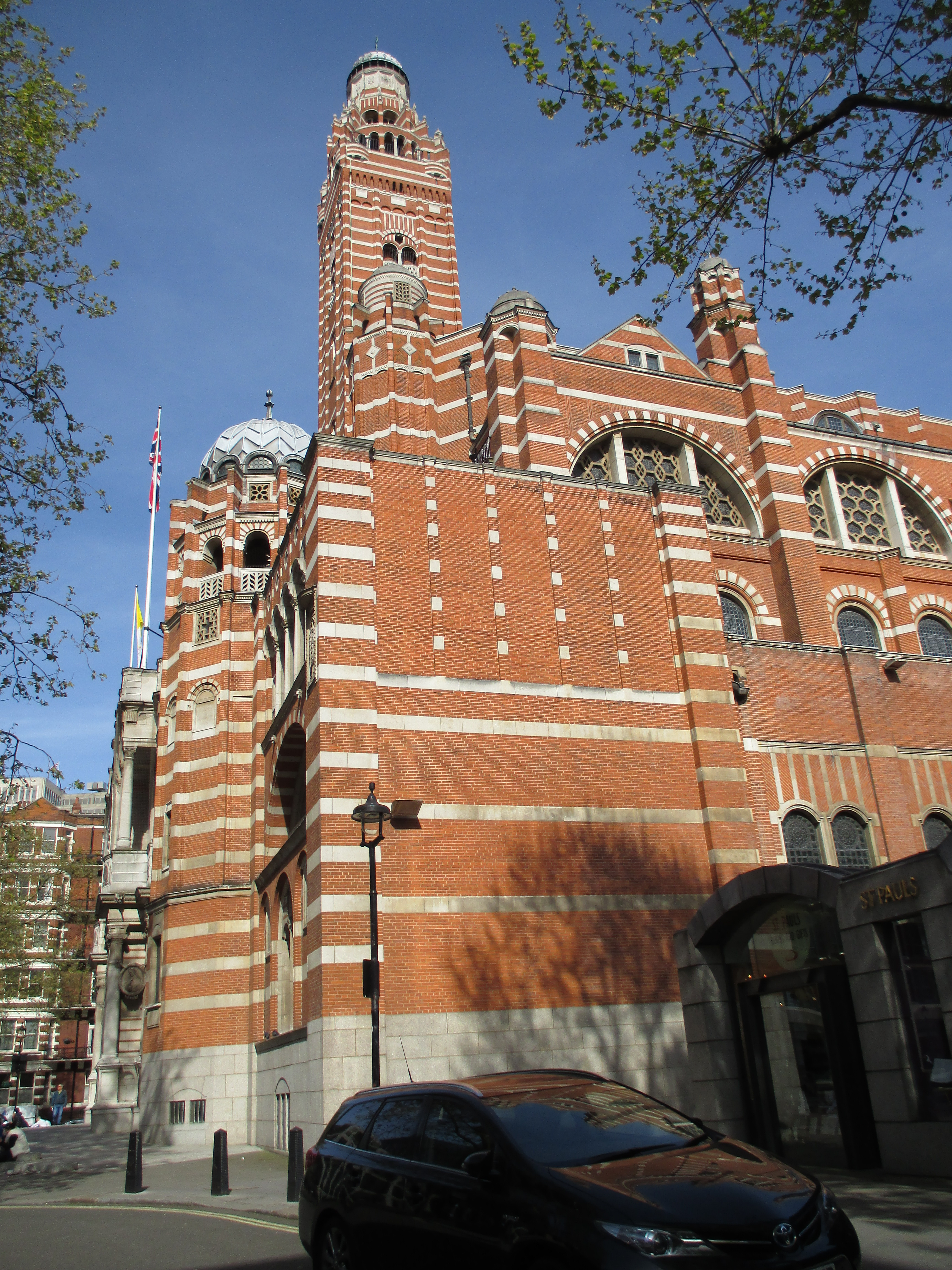 Westminster Cathedral seen from the south-west